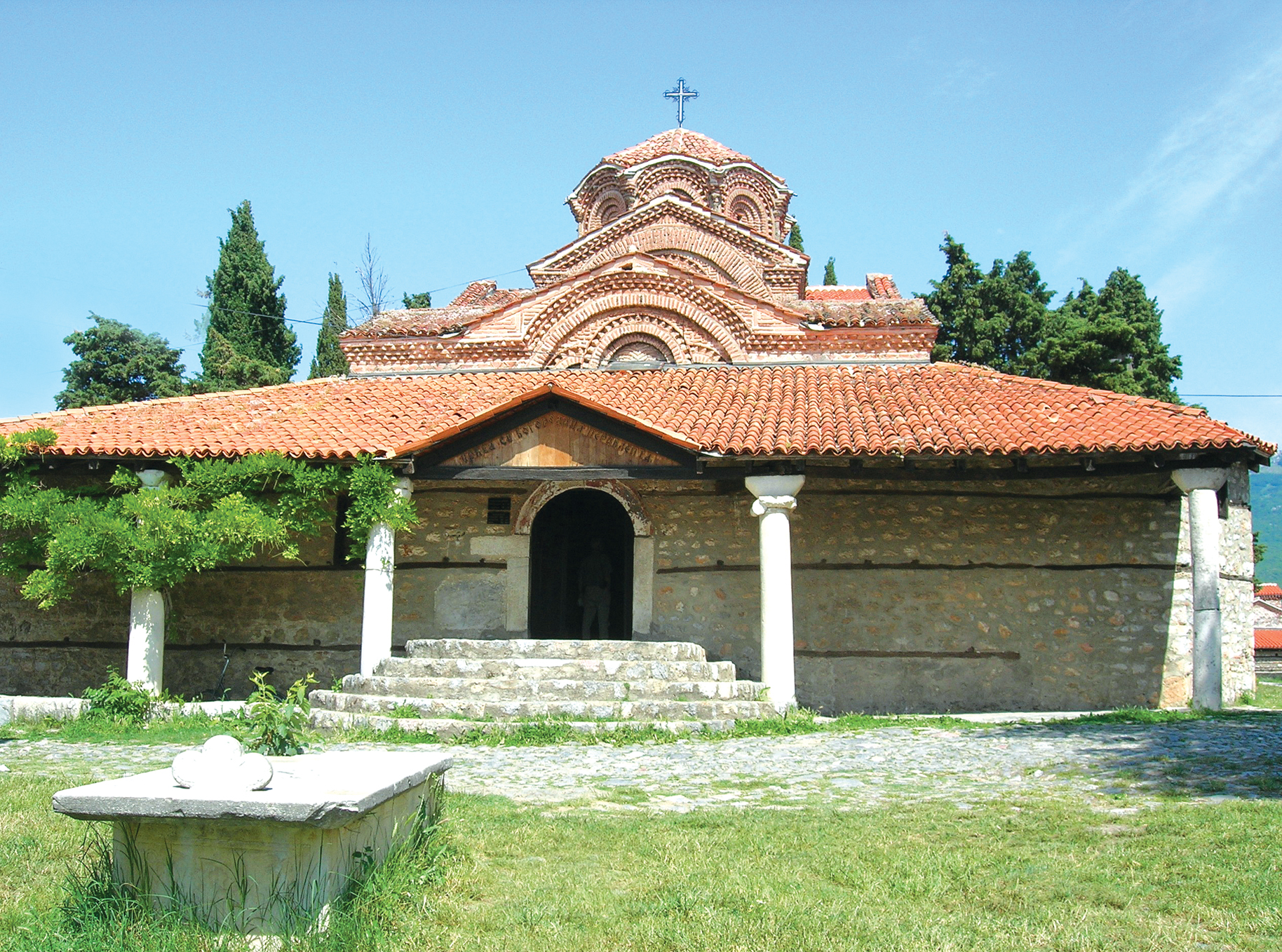 Holy Mother of God church, Ohrid